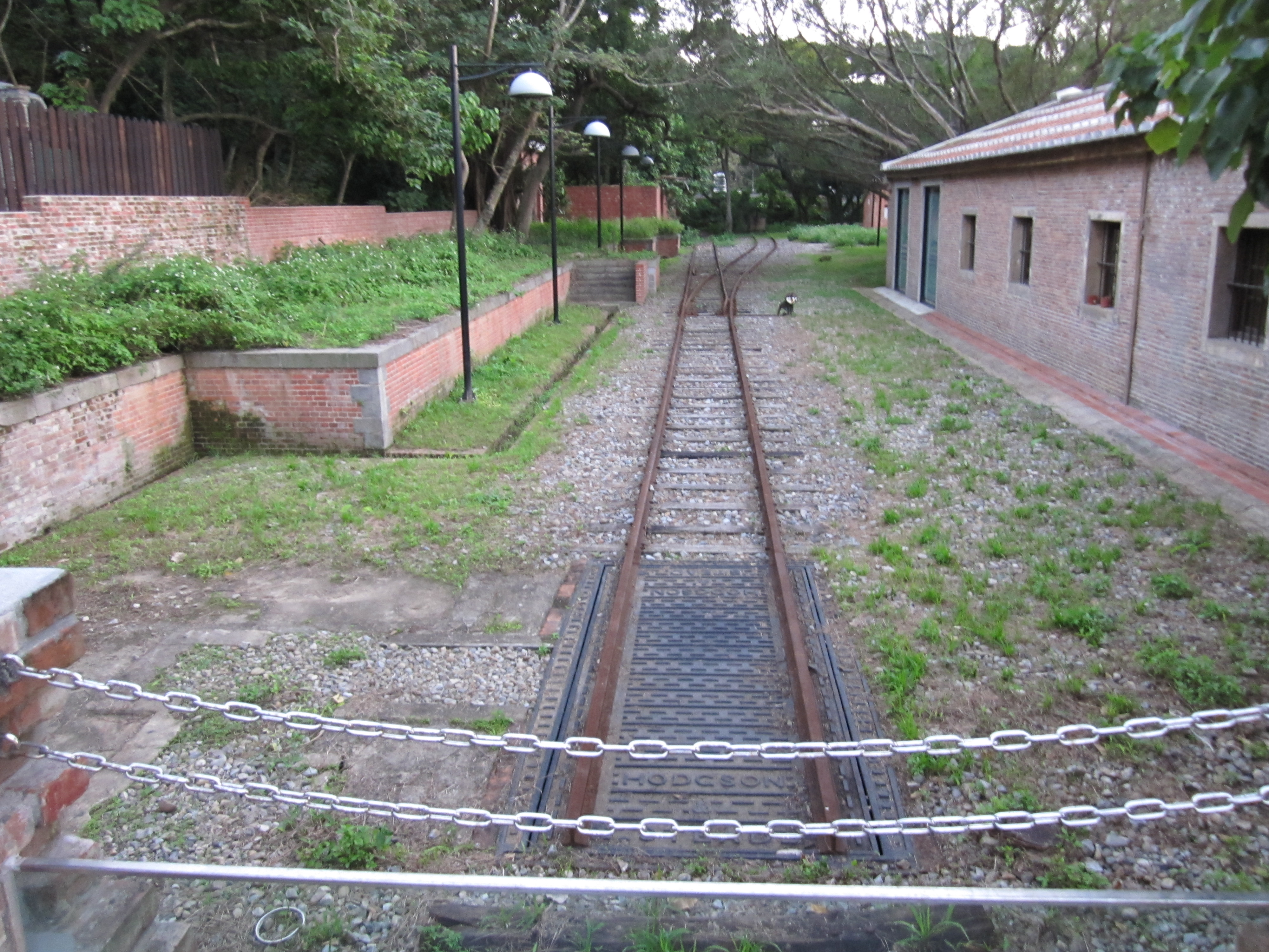 Taiwan Asia Line.中文（台灣）: 亞細亞支線。